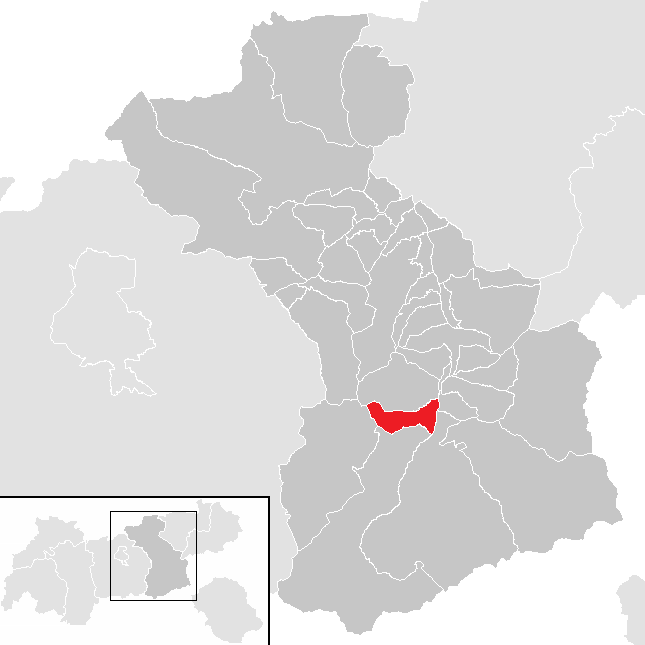 District Schwaz